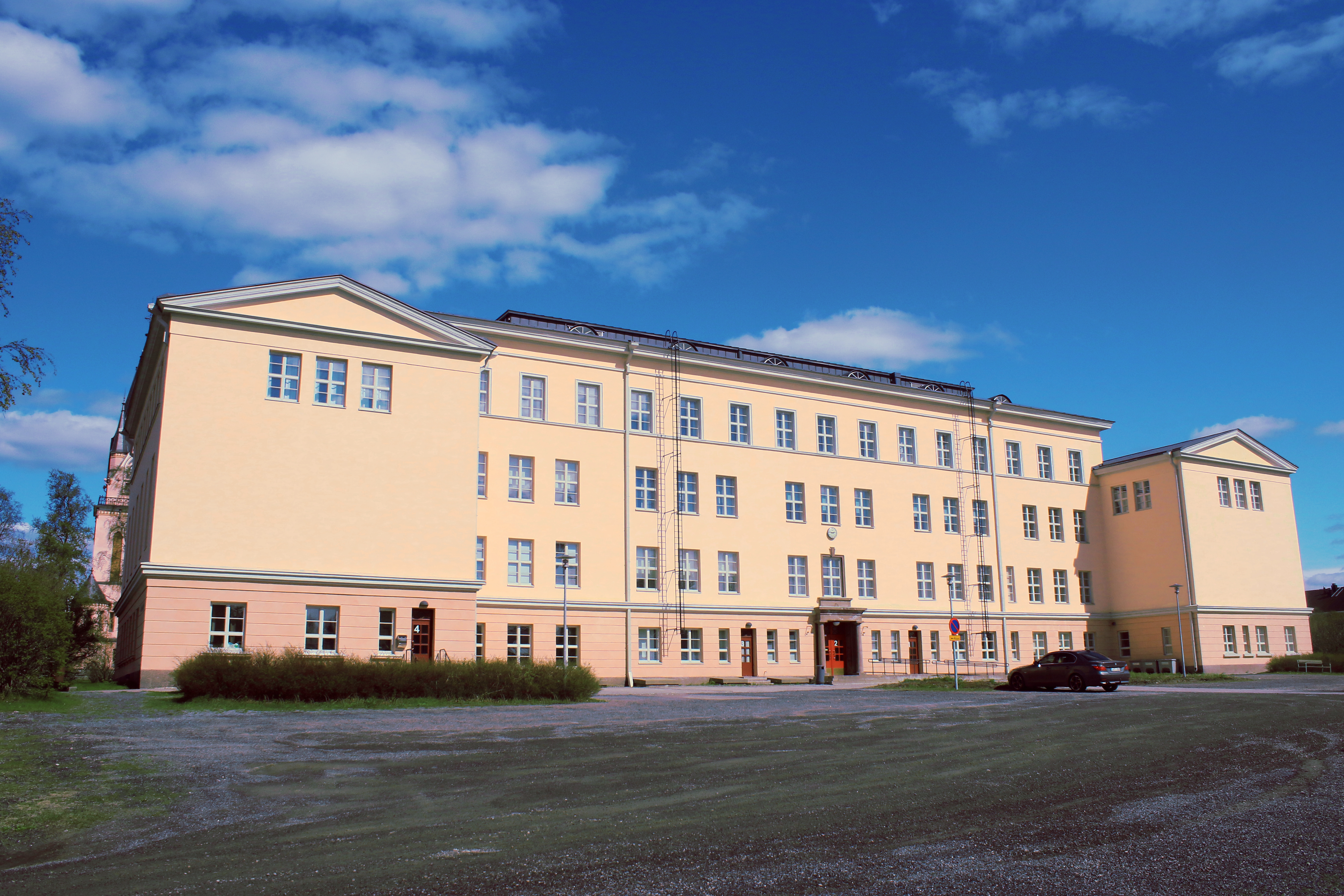 Kemin lyseon lukio main building.